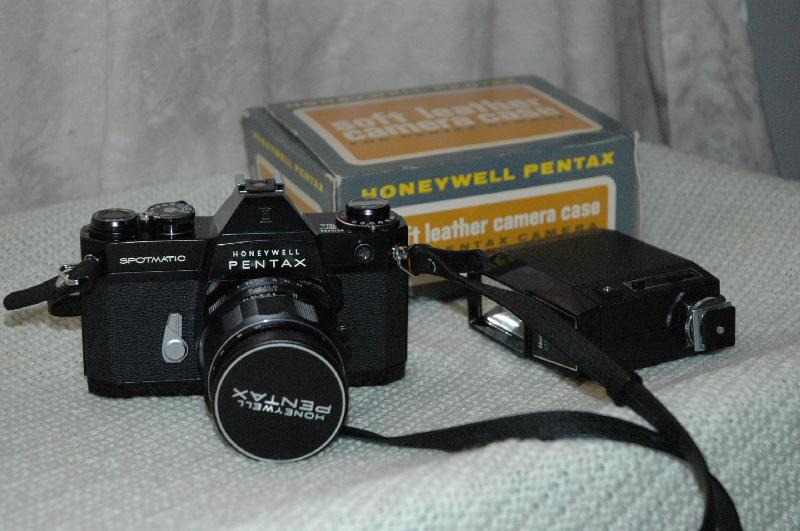 Spotmatic IIa camera